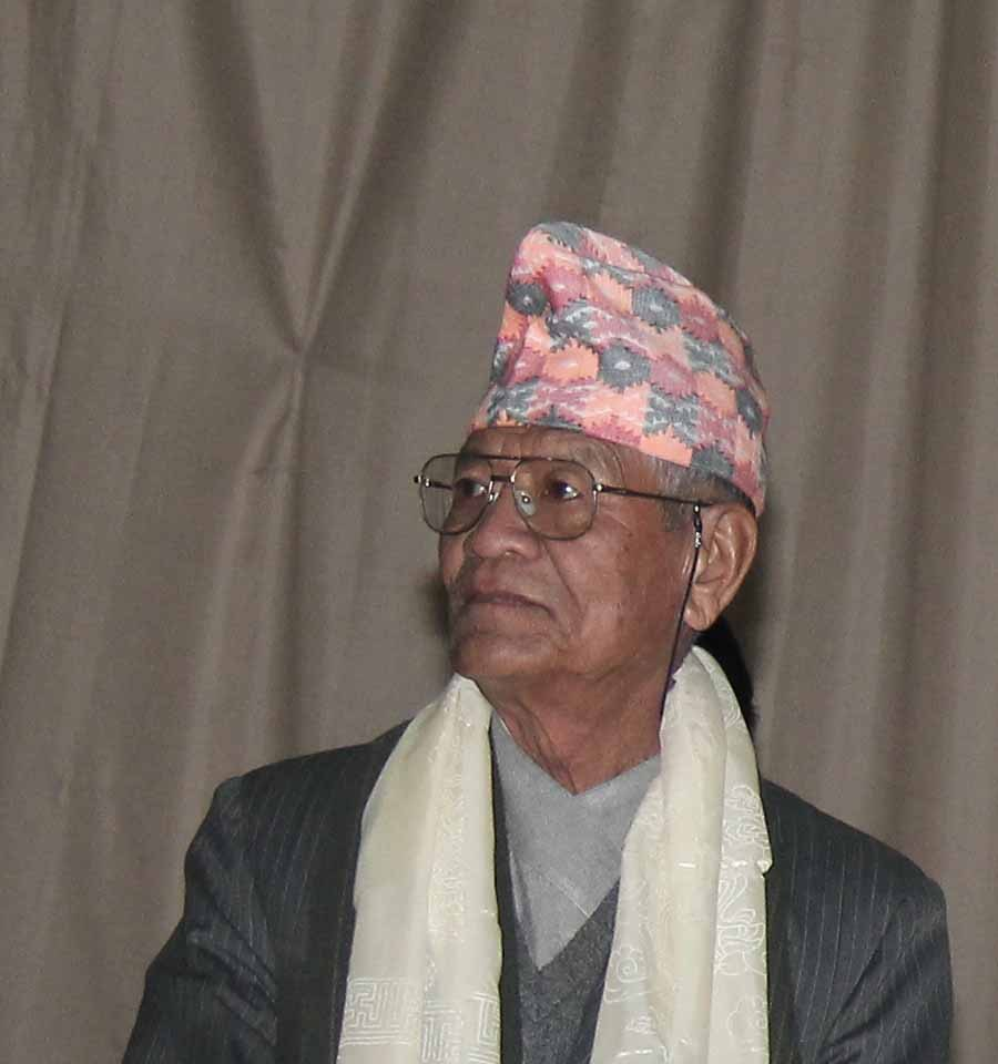 A great literary figure in Nepali Language. He is the chancellor of Nepal Academy now.